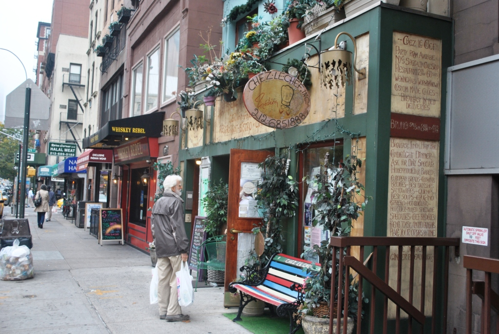 Lexington Avenue